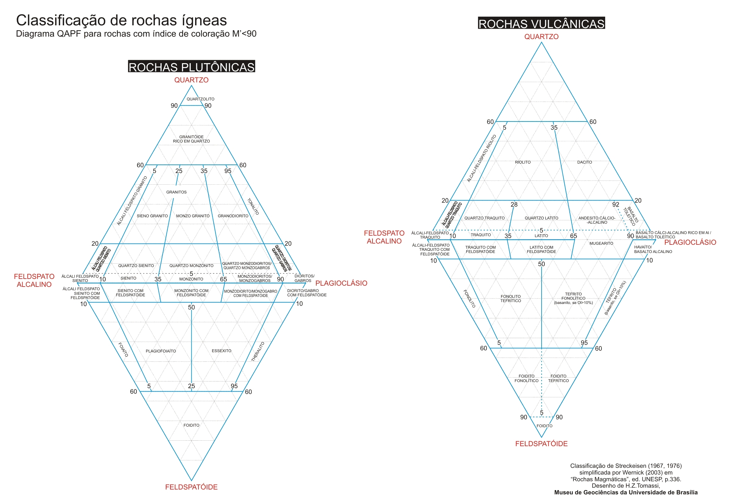 QAPF diagram for igneus rocks